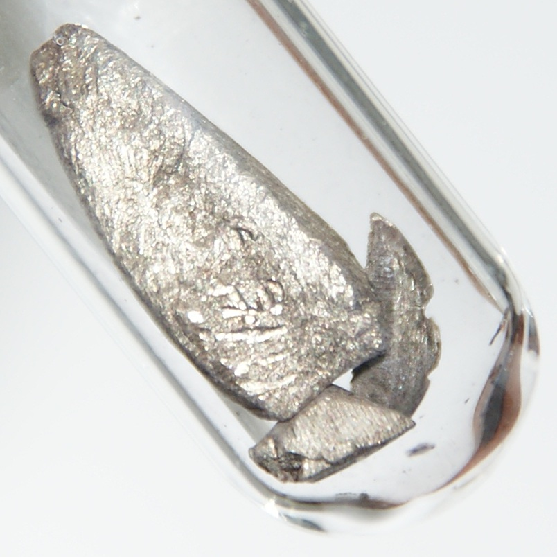 Weakly oxidized europium, hence slightly yellowish. 1.5 grams, large piece 0.6 x 1.6 cm.